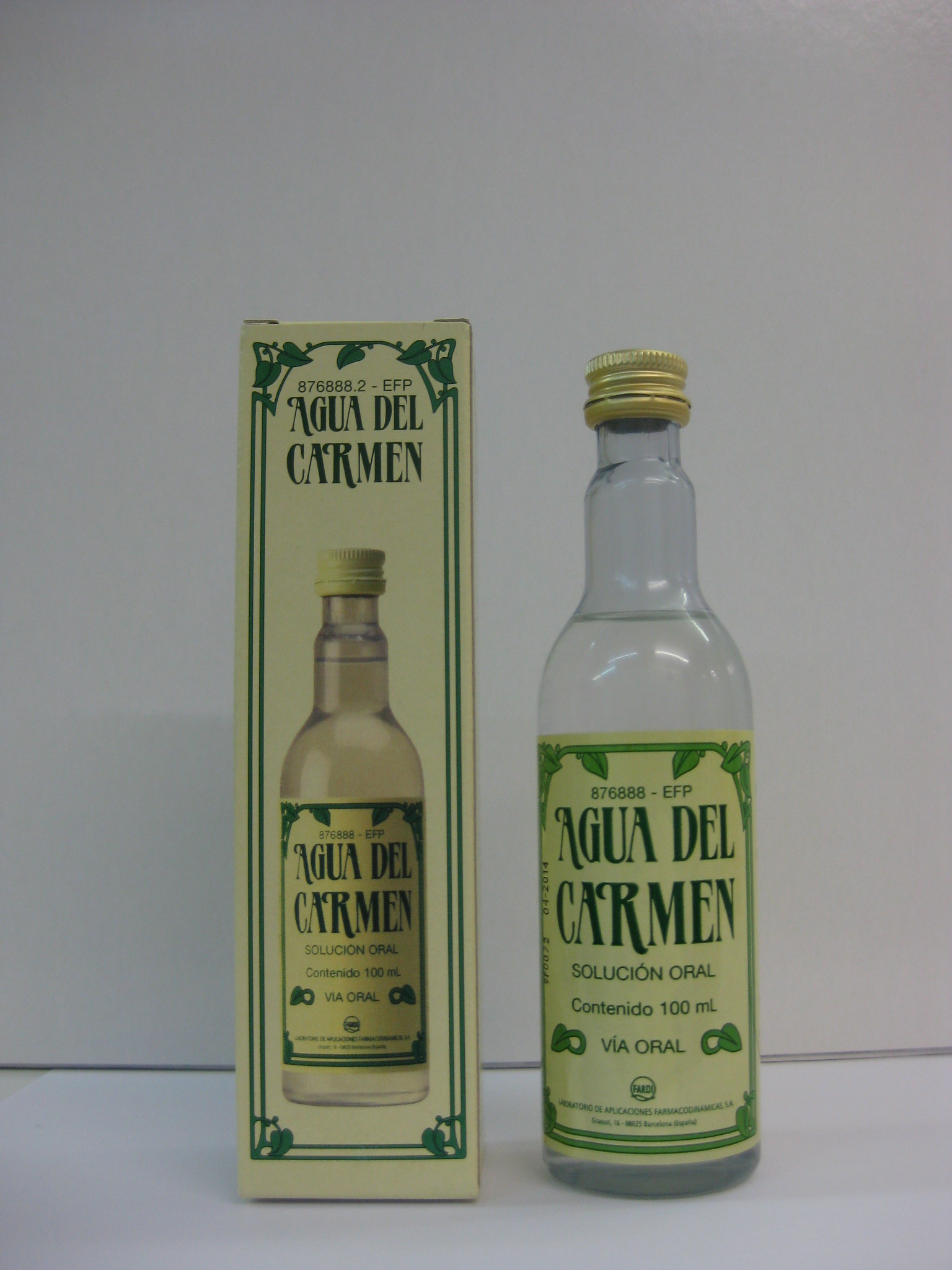 Agua del Carmen®: medicinal preparation used as an antispasmodic, carminative, cholerectic and stomach tonic in Spain. Its composition includes different medicinal plants.